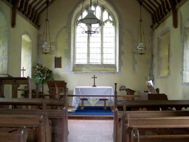 Interior, St Nicholas Church, West Worldham The church is a single cell building and is Grade II listed.